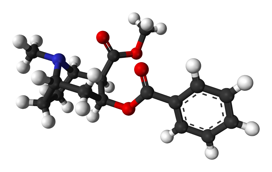 Ball-and-stick model of the cocaine molecule